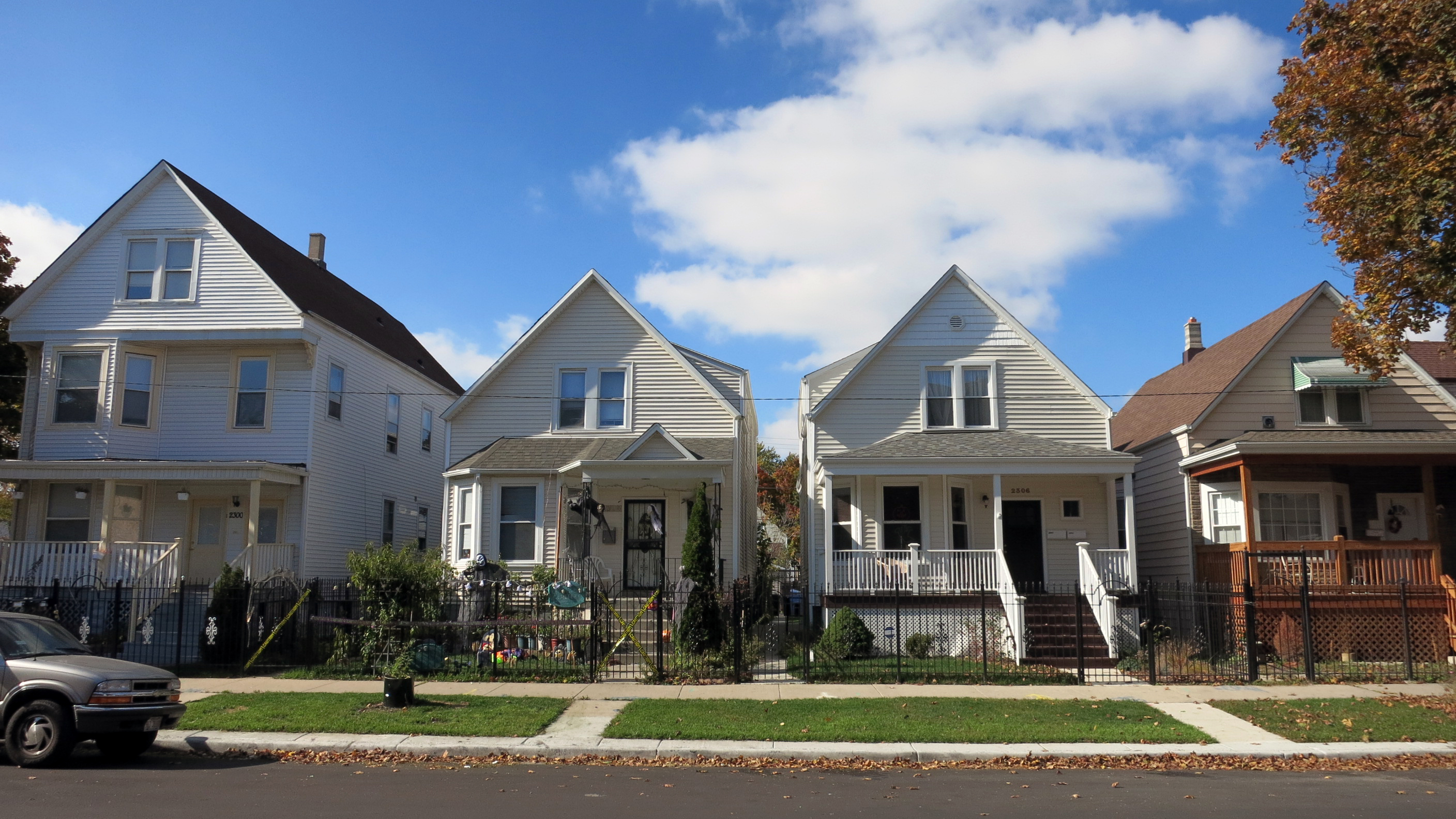 Hermosa Park is mostly defined by its simple worker’s cottages and wood frame 2- and 3-flat multi-unit dwellings, which were mostly constructed in the late 19th century.